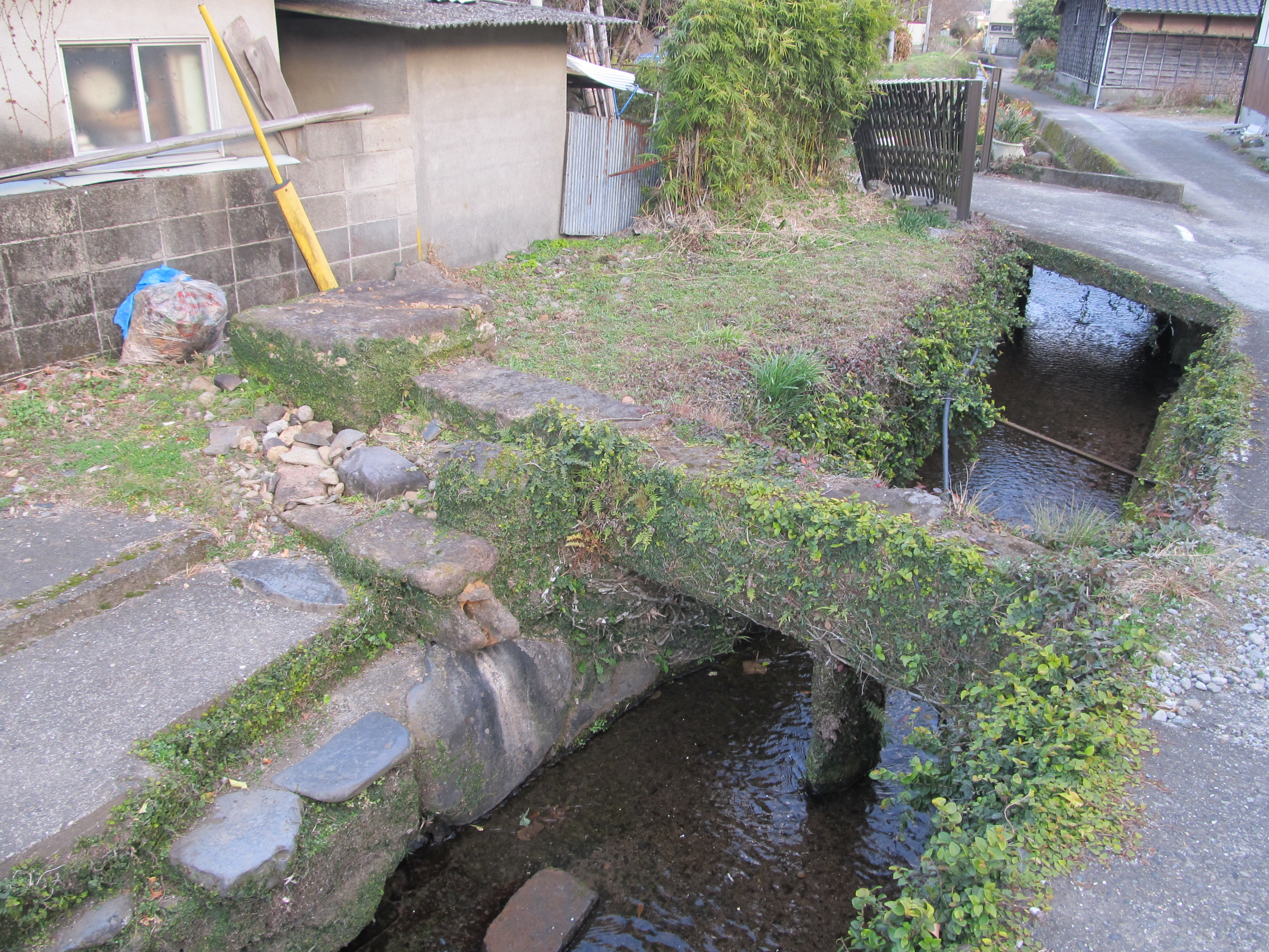 Sluiceway of Gosen Aqueduct and "masu".